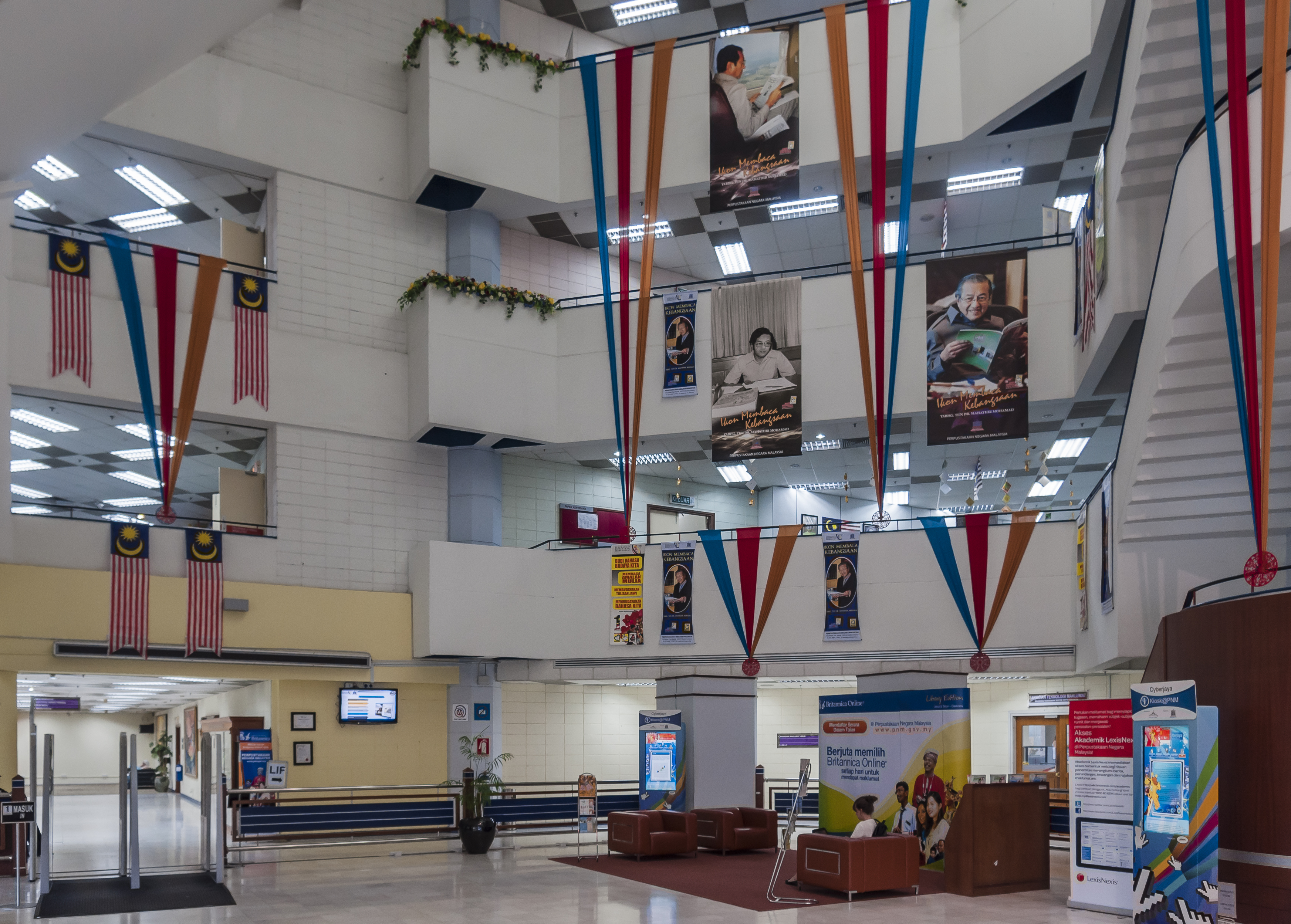 Kuala Lumpur, Malaysia: Perpustakaan Negara Malaysia (National Library of Malaysia)